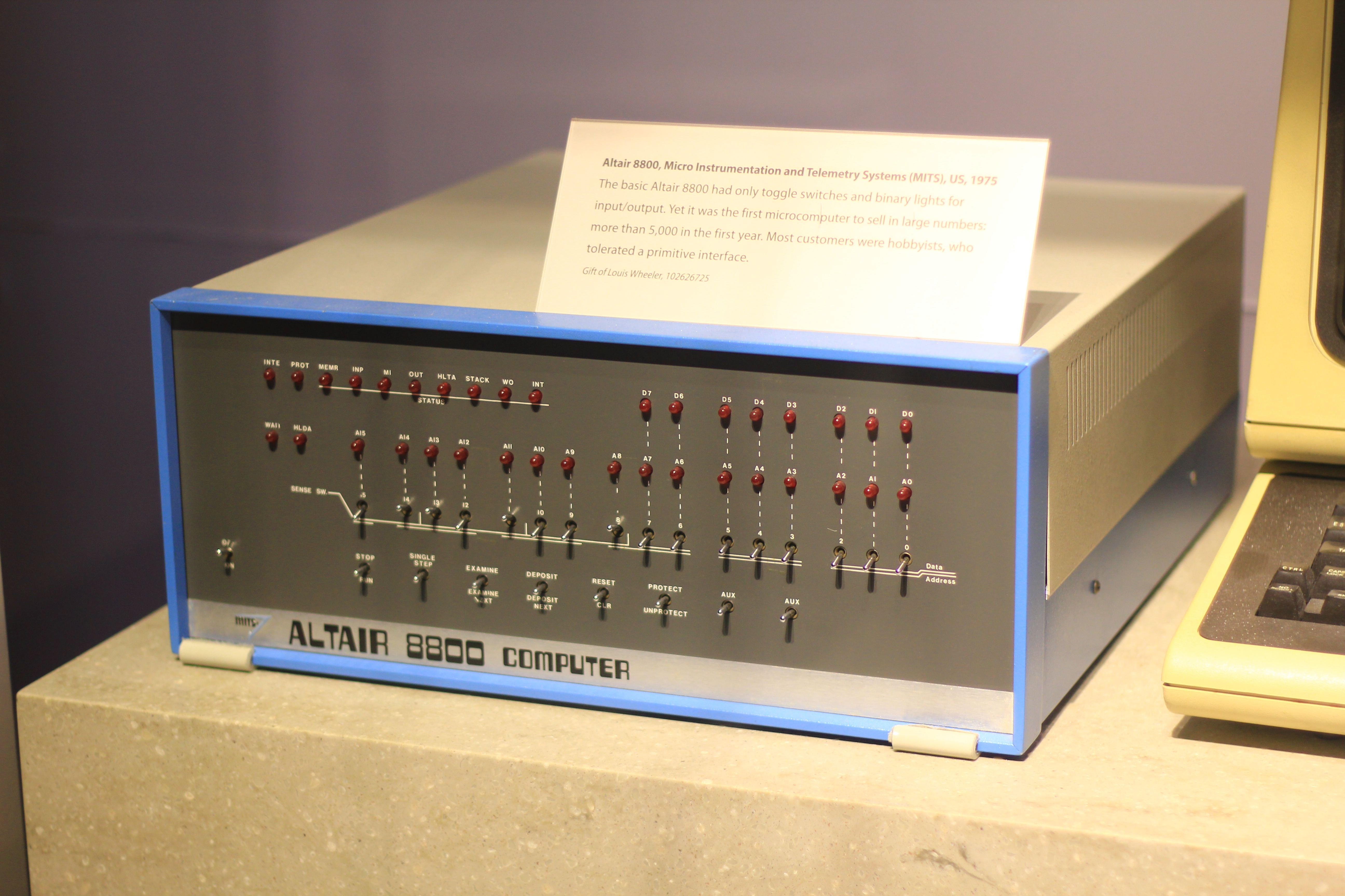 MITS Altair 8800 microcomputer, the first such system to sell in large numbers (5000 in the first year, according to the accompanying text).